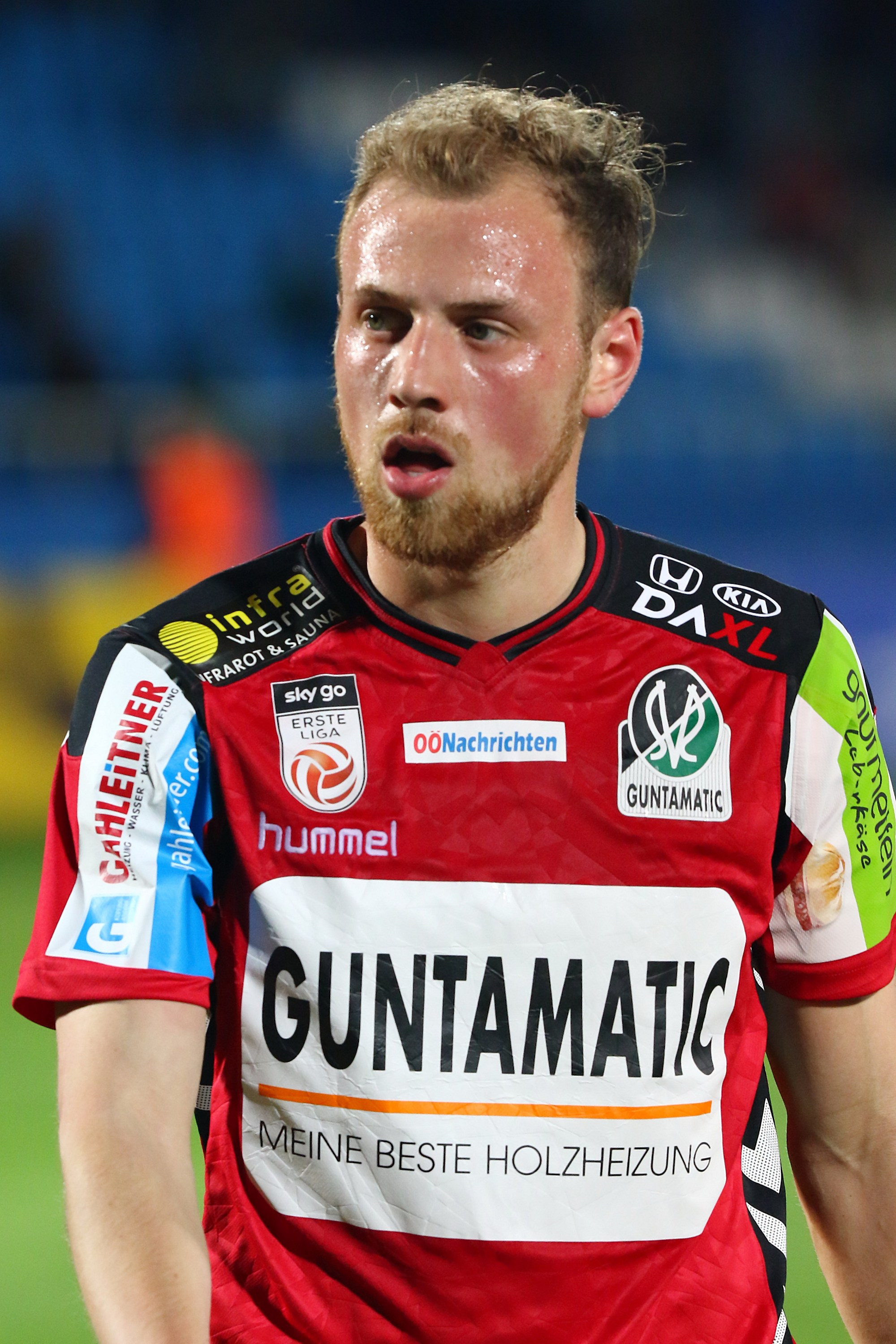 Football-championship Erste Liga 2017–18 - SC Wiener Neustadt (white shirts) vs. SV Ried (red shirts) 1-0. – The photo shows Julian Wießmeier